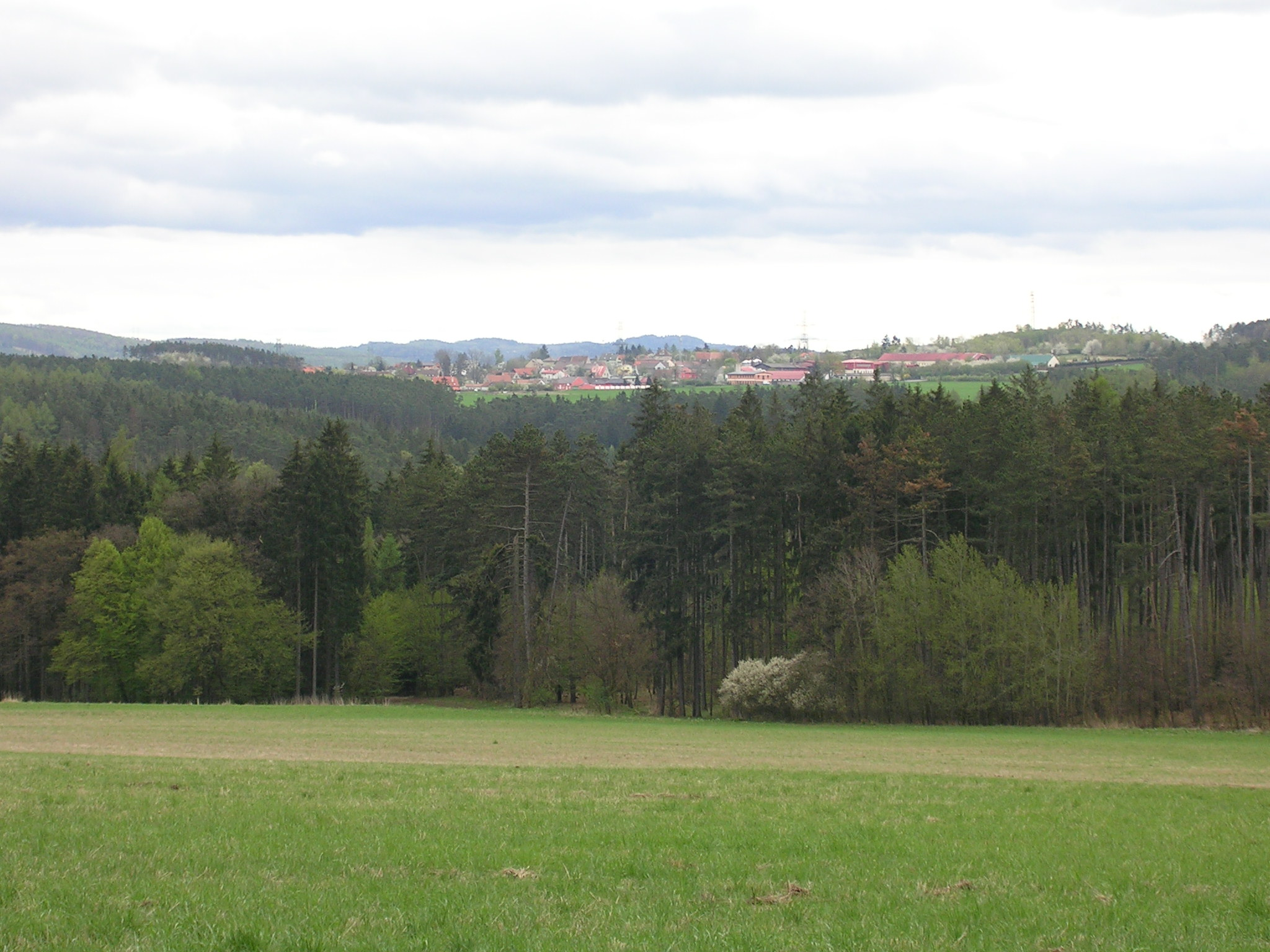 Davle-Sloup, view from Klínec, Central Bohemian Region, the Czech Republic.